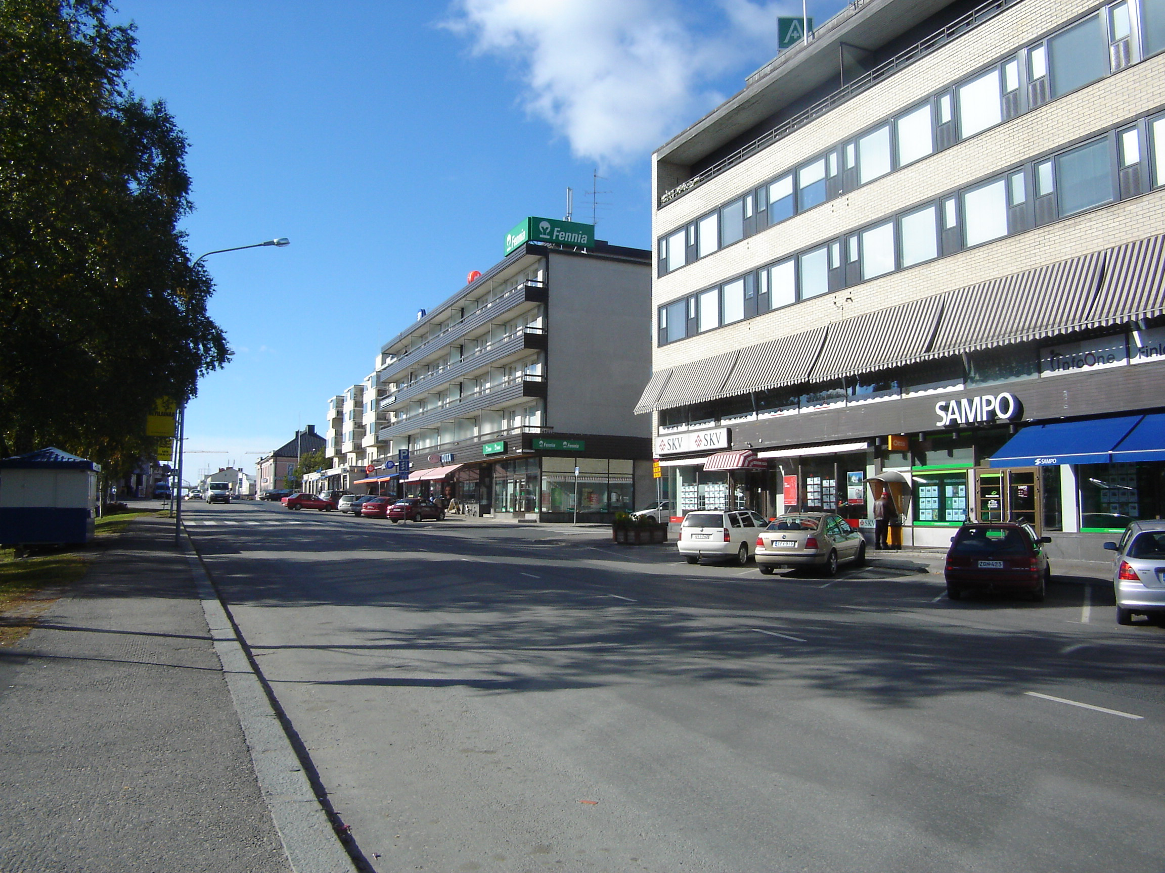 Hallituskatu street in central Tornio, Finland